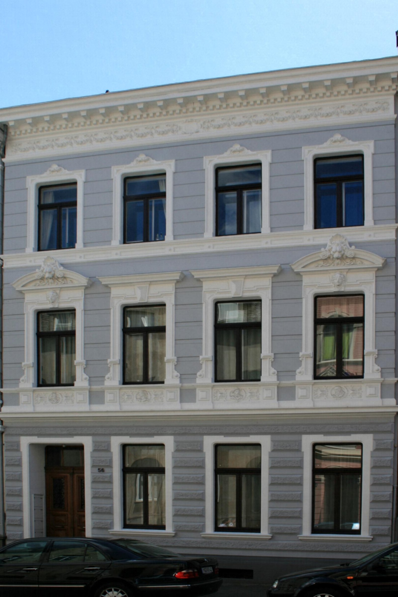 Cultural heritage monument No. K 003 in Mönchengladbach